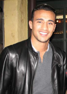 Badr Hari is a Dutch-Moroccan kickboxer.